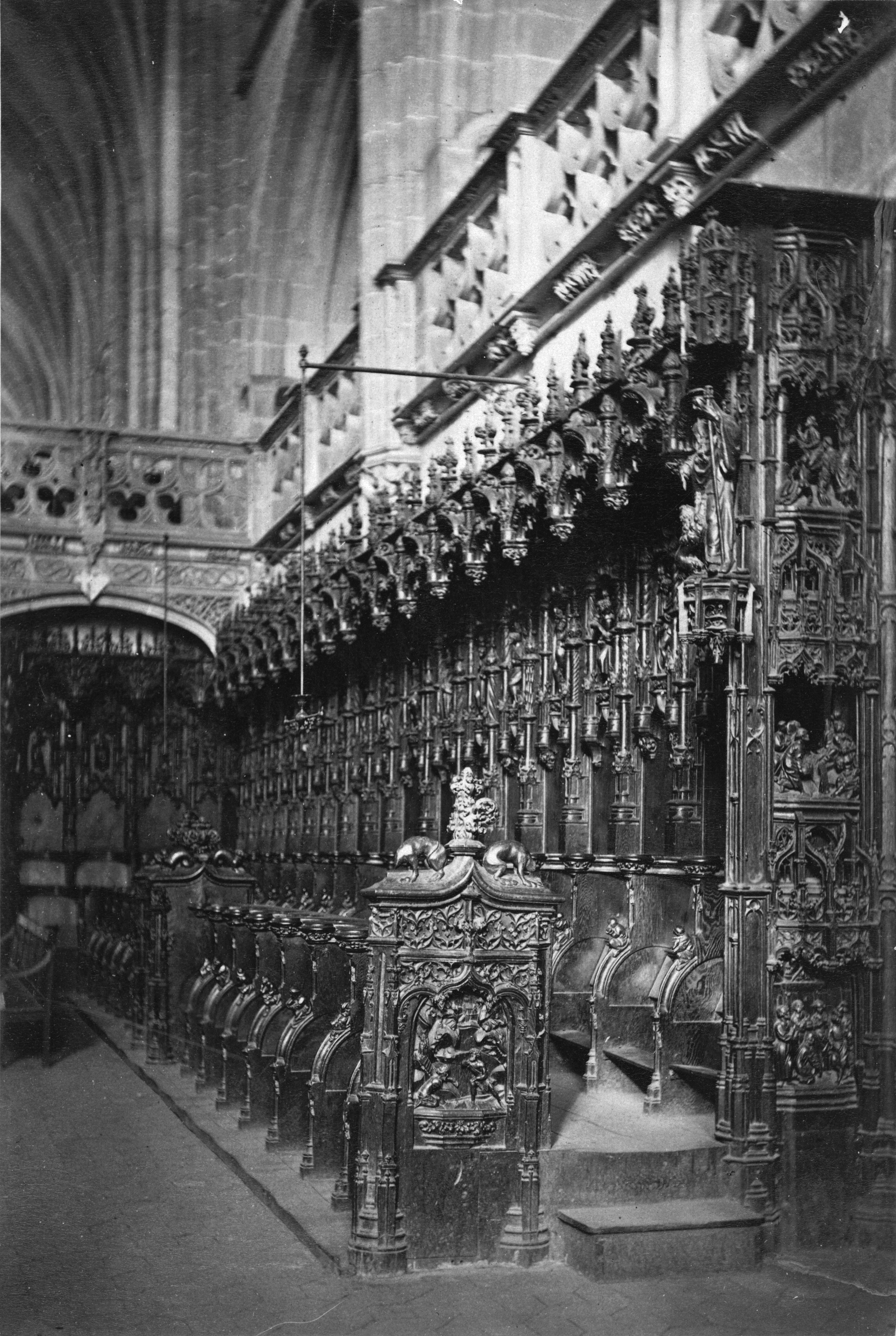 Collection: A. D. White Architectural Photographs, Cornell University Library Accession Number: 15/5/3090.01306 Title: Bourg-en-Bresse. Brou Church, Choir Stalls (Interior) Sculptor: Conrad Meit Building Date: 1505-1536 Photograph date: ca. 1865-ca. 1886 Location: Europe: France; Bourg-en-Bresse Materials: albumen print Image: 6.4173 x 4.3307 in.; 16.3 x 11 cm Style: Flamboyant Gothic Provenance: Gift of Andrew Dickson White Persistent URI: There are no known U.S. copyright restrictions on this image. The digital file is owned by the Cornell University Library which is making it freely available with the request that, when possible, the Library be credited as its source. We had some help with the geocoding from Web Services by Yahoo!